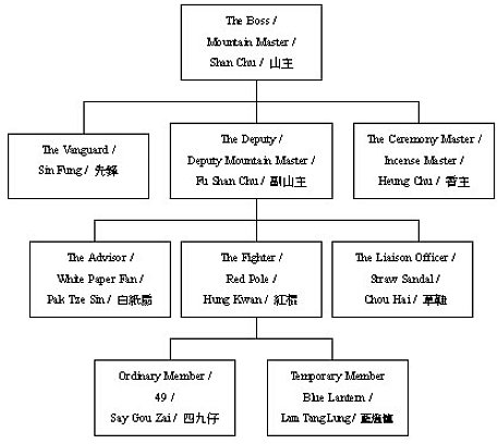 Triad organizational structure